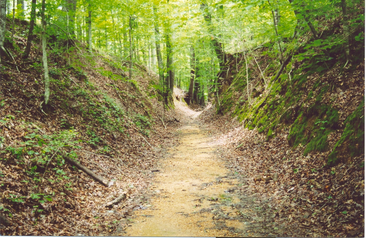 Sunken part of the Old Trace Photo by Jan Kronsell, 2002 Comment by Doncram, 31 March 2010: The location appears to be the "Sunken Trace" at milepost 41.5 on the Natchez Trace Parkway, as identified by National Park Service photo similar to Jan Kronsell's, available at as of 31 March 2010. The National Park Service site states the sunken trace is "caused by thousands of travelers walking over the easily eroded loess soil." Mileposts on the 414-mile Natchez Trace Parkway are numbered from zero at the southern terminus, in Natchez, Mississippi.